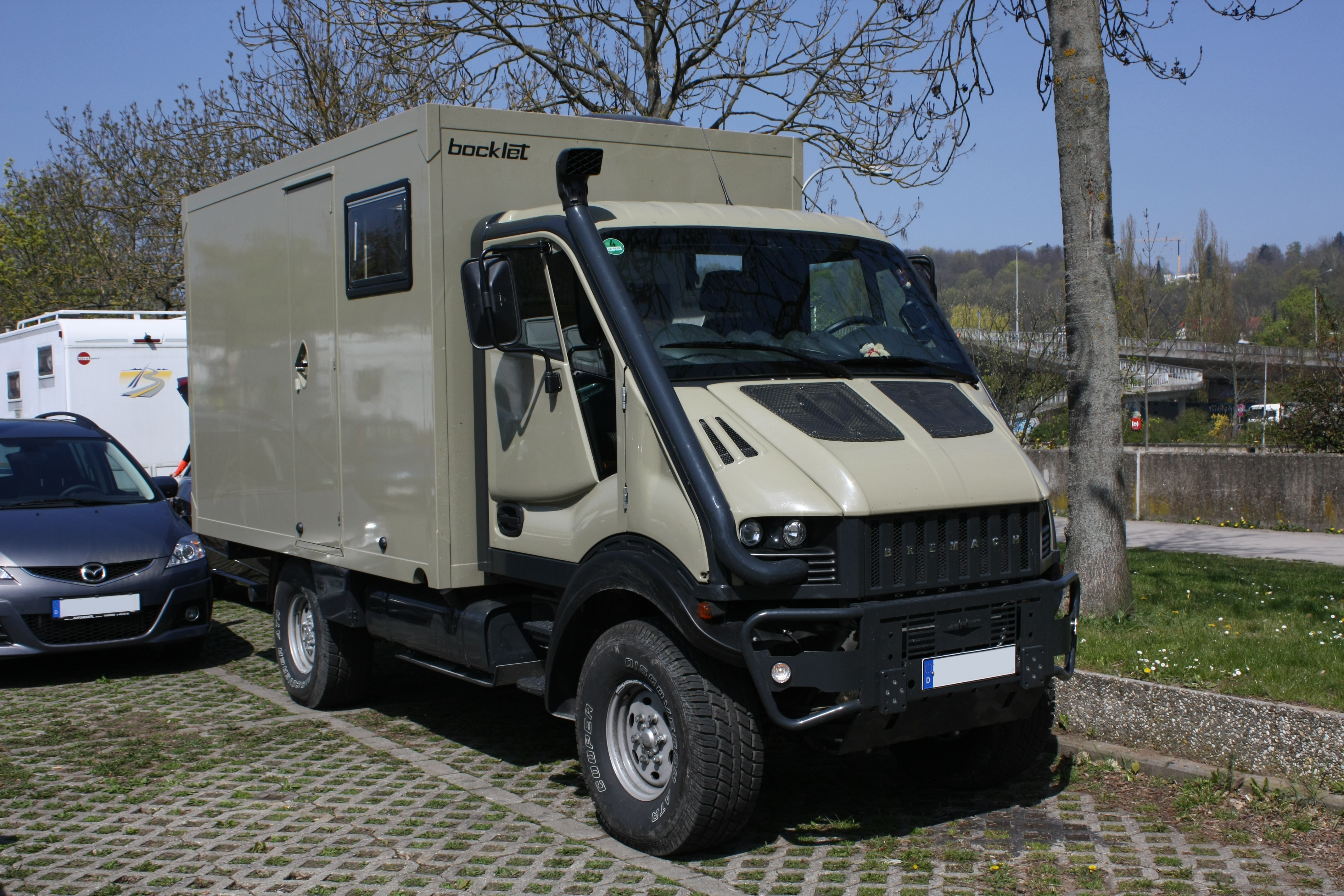 Bremach TRex